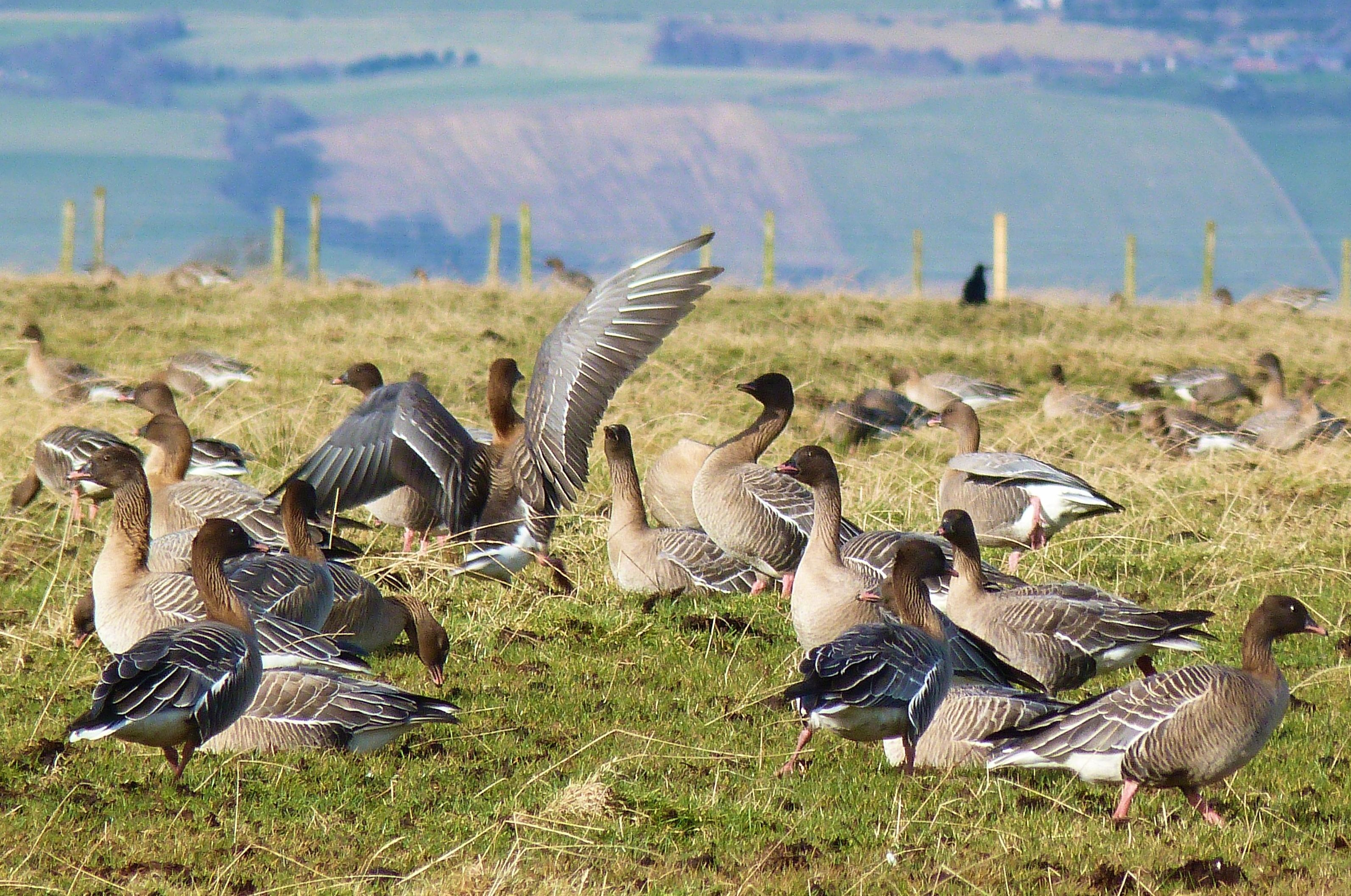 Pink-footed Geese Anser brachyrhynchus on farmland in Nairnshire, Scotland.